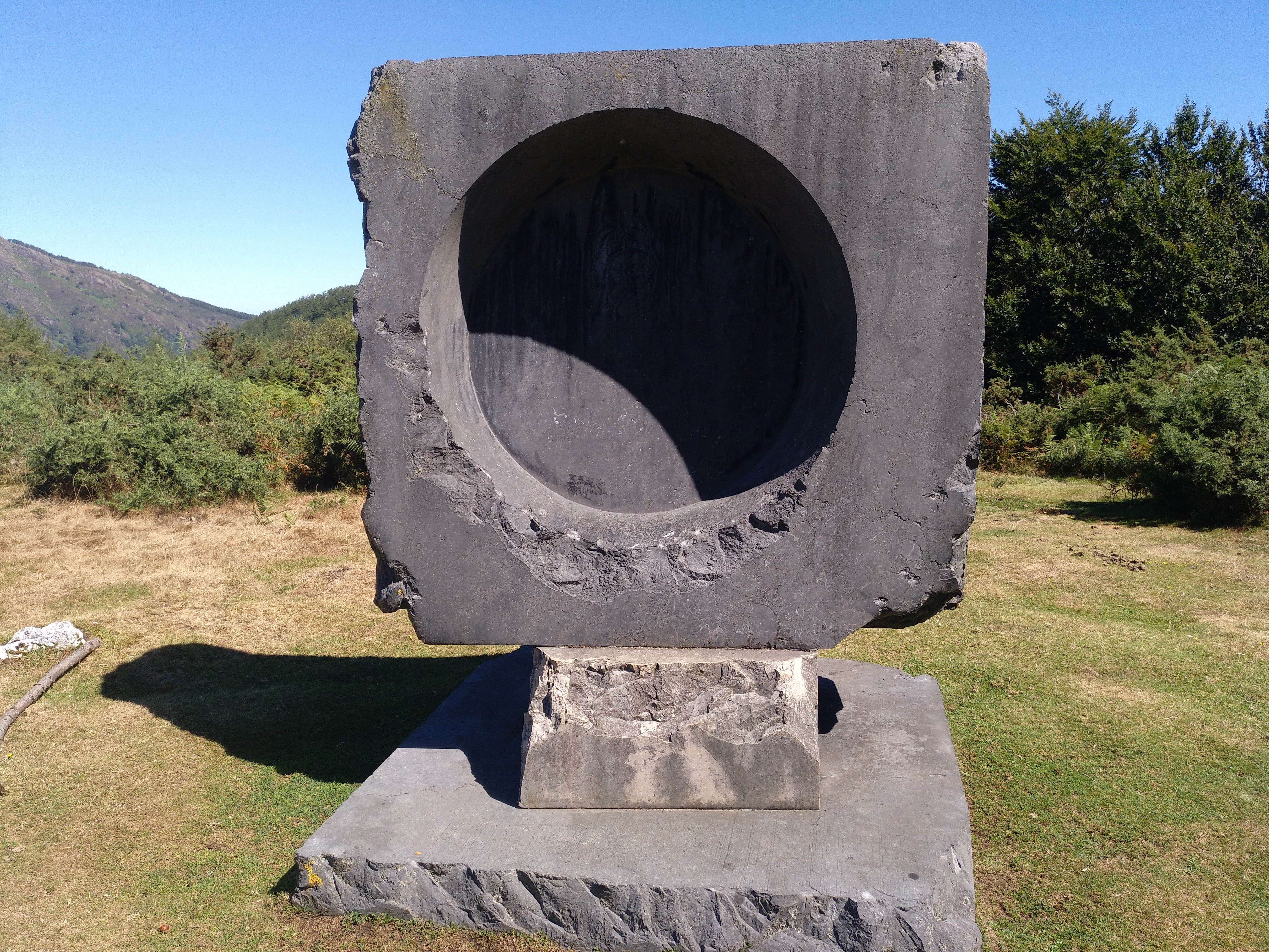 Jorge Oteiza's stela on Agina